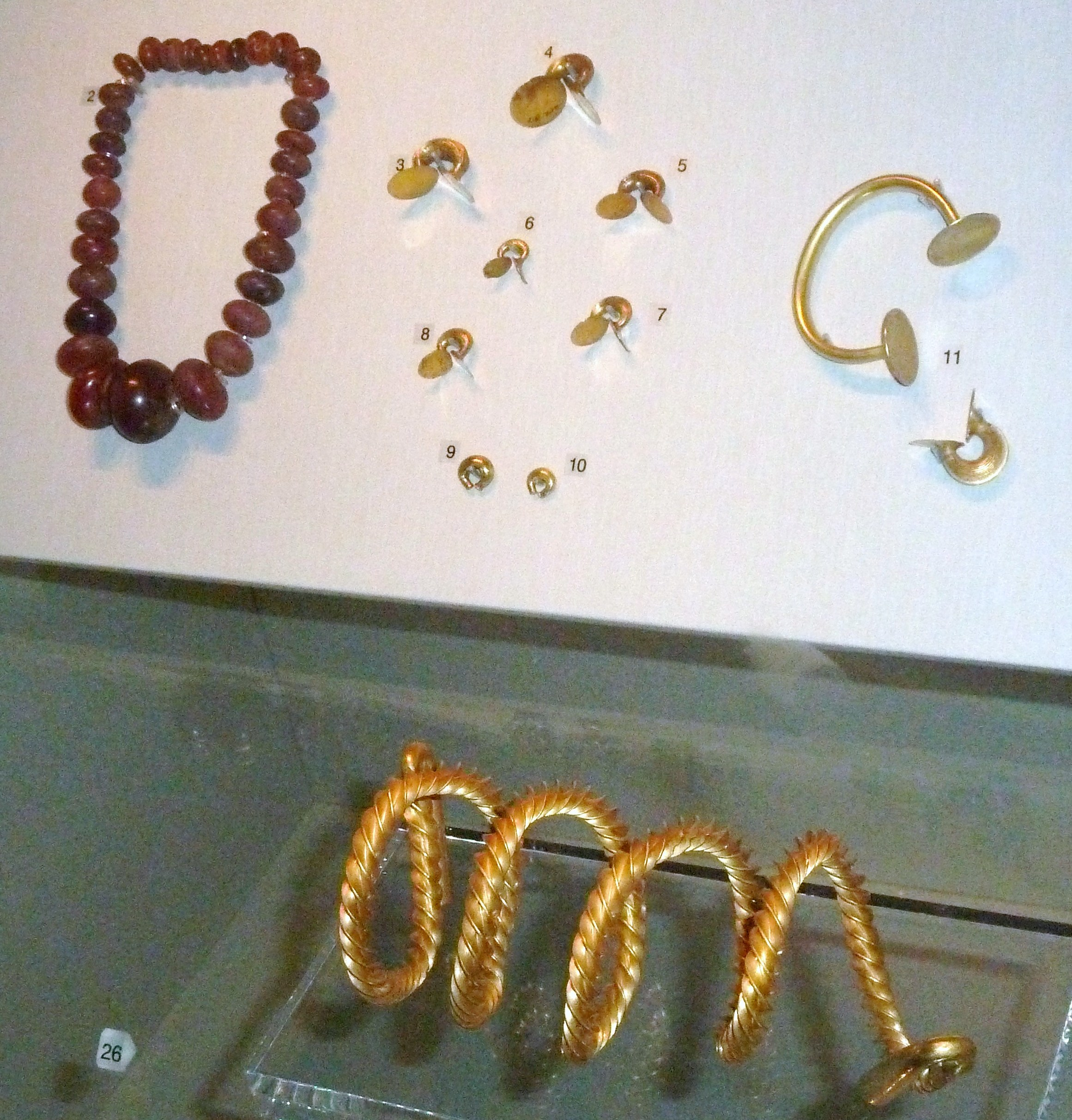 Ulster Museum prehistory Bronze age 1. Ribbon torcs.near Ballyrashane, Co. Londonderry, Ireland. 2.Amber necklace. near Craigbilly and Conor, Co. Antrim, Ireland. 3.Sleeve fastener.Ballynagard, Rathlin Island.Co. Antrim, Ireland. 4.Sleeve fastener. Downpatrick, Co. Down, Ireland. 5.Sleeve fastener. Ireland. 6.Sleeve fastener. Dublin, Co. Dublin, Ireland. 7.Sleeve fastener.Ireland. 8.Sleeve fastener.Ballyculter Upper, near Downpatrick, Co. Down, Ireland. 10.Sleeve fastener without discs. Ireland. 11.Cup-ended bracelet and sleeve fastener. 26.Torc.Corrard, Co. Fermanagh, Ireland.